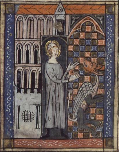 Saint Amand et le serpent (Saint Amandus and the Serpent)